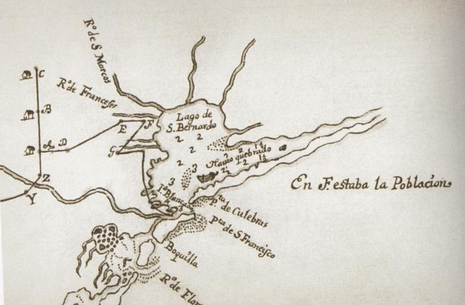 This is a map of Matagorda Bay, Texas as of 1689. The map was drawn by Carlos de Sigüenza y Góngora based on sketches compiled during the expedition of Alonso de Leon. The Spanish called the bay "Lago de San Bernardo". An F marks the spot of the French settlement, Fort Saint Louis, and "Navio Quebrado", or "broken ship", marks the spot where the French ship La Belle was grounded.